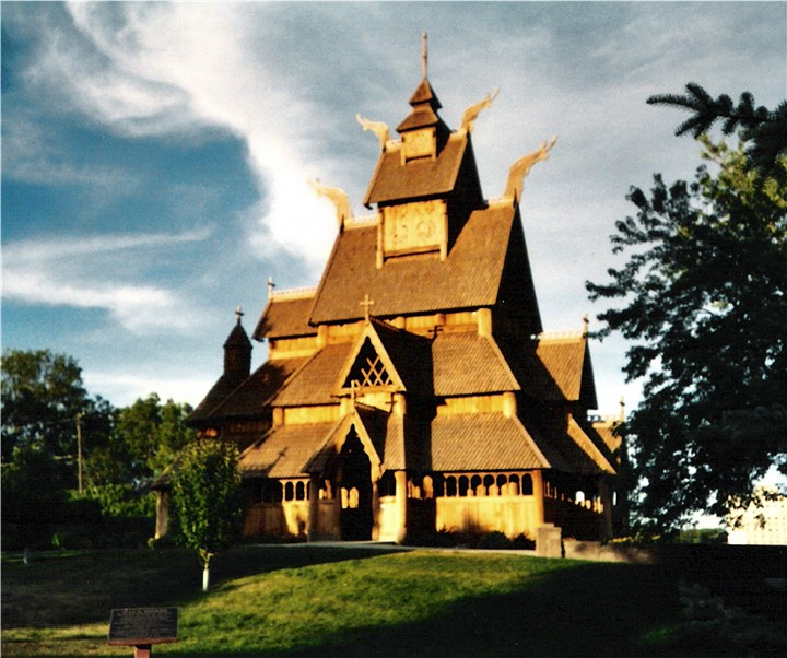 A reproduction of a "stave" church in the Scandinavian Heritage Park in Minot, North Dakota